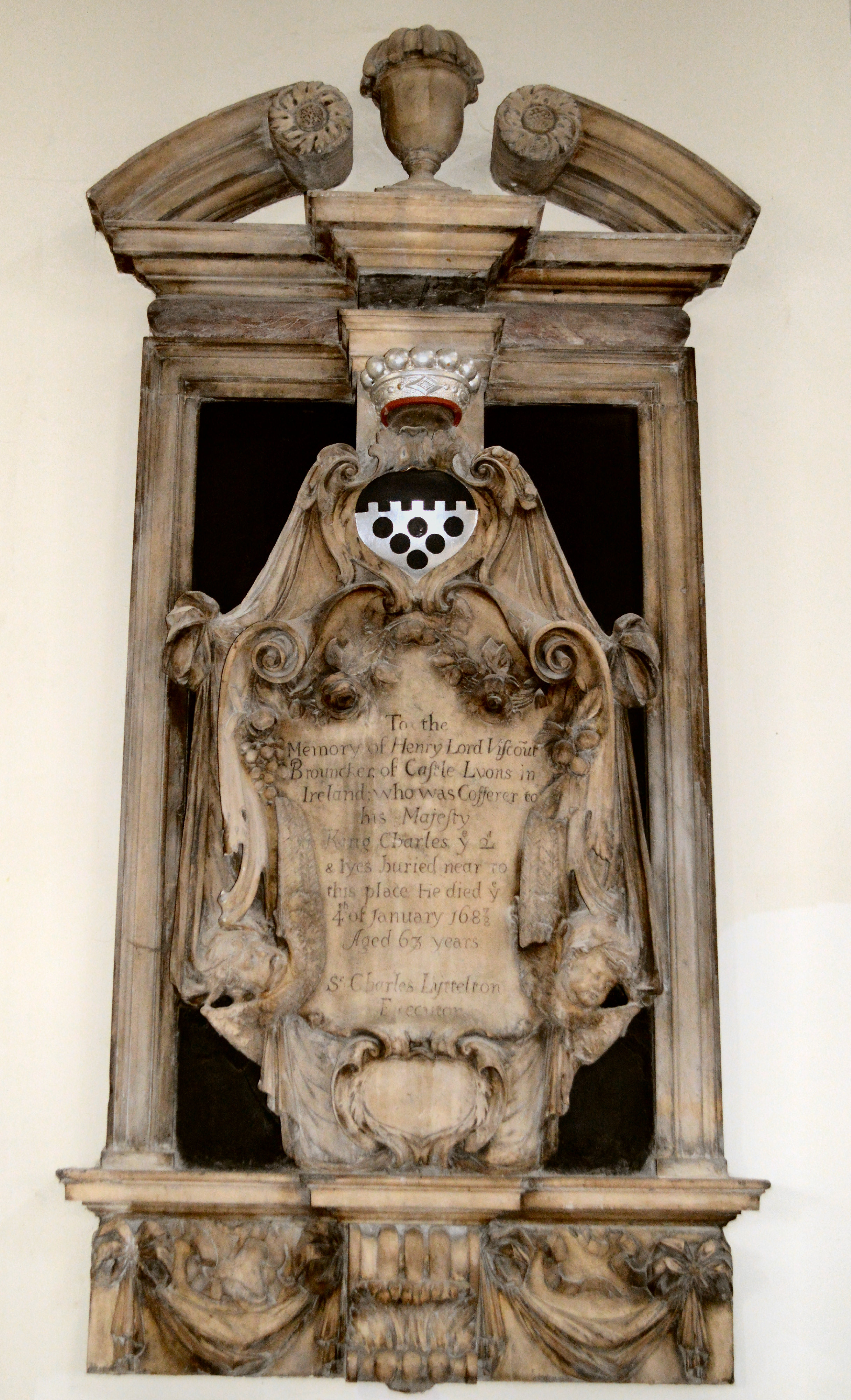 St Mary Magdalene's, Richmond. Henry Lord Viscount Brouncker, d.1687/8, of Castle Lyons in Ireland, ‘Cofferer to his Majesty King Charles ye 2nd’